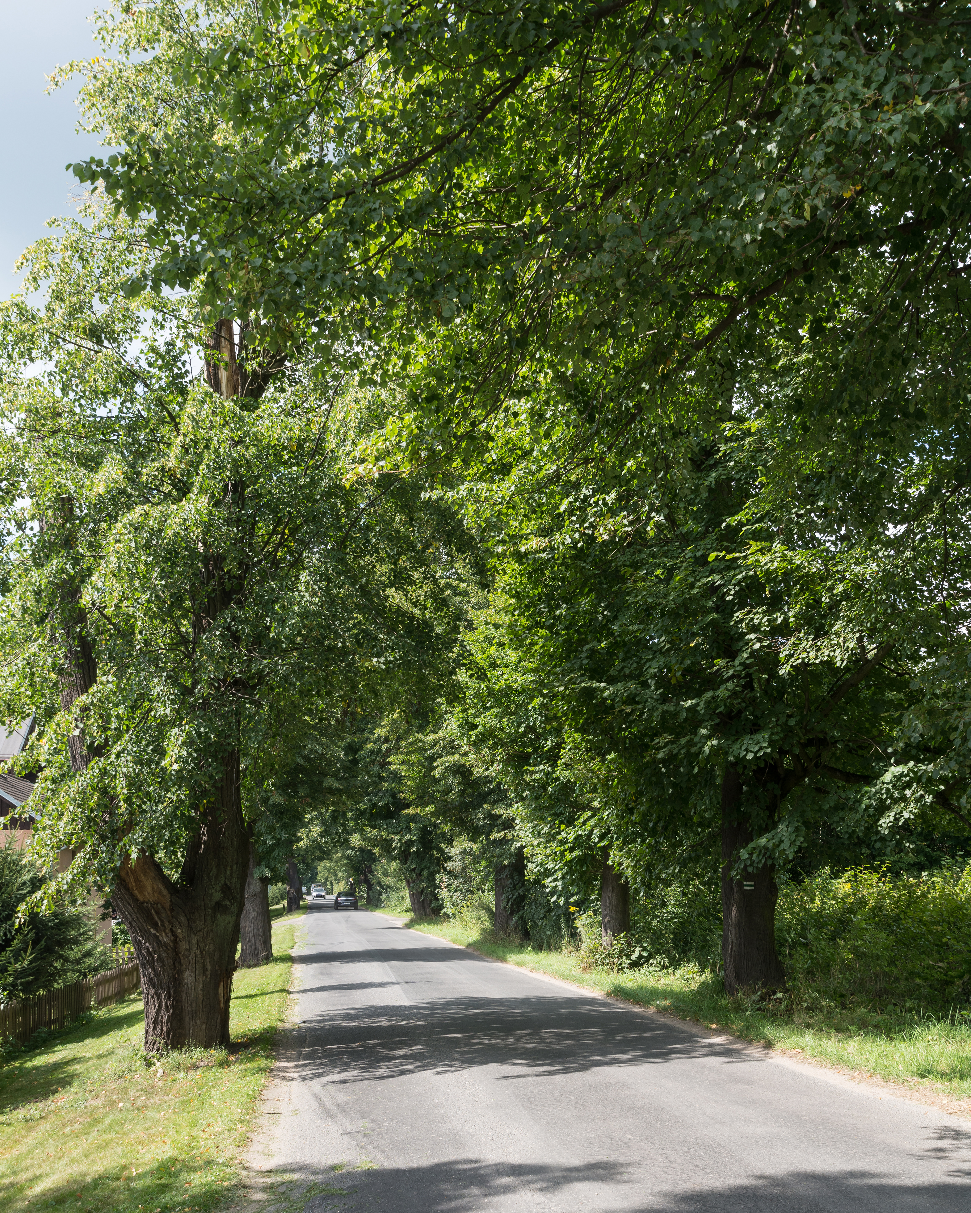 Lime avenue in Karpniki